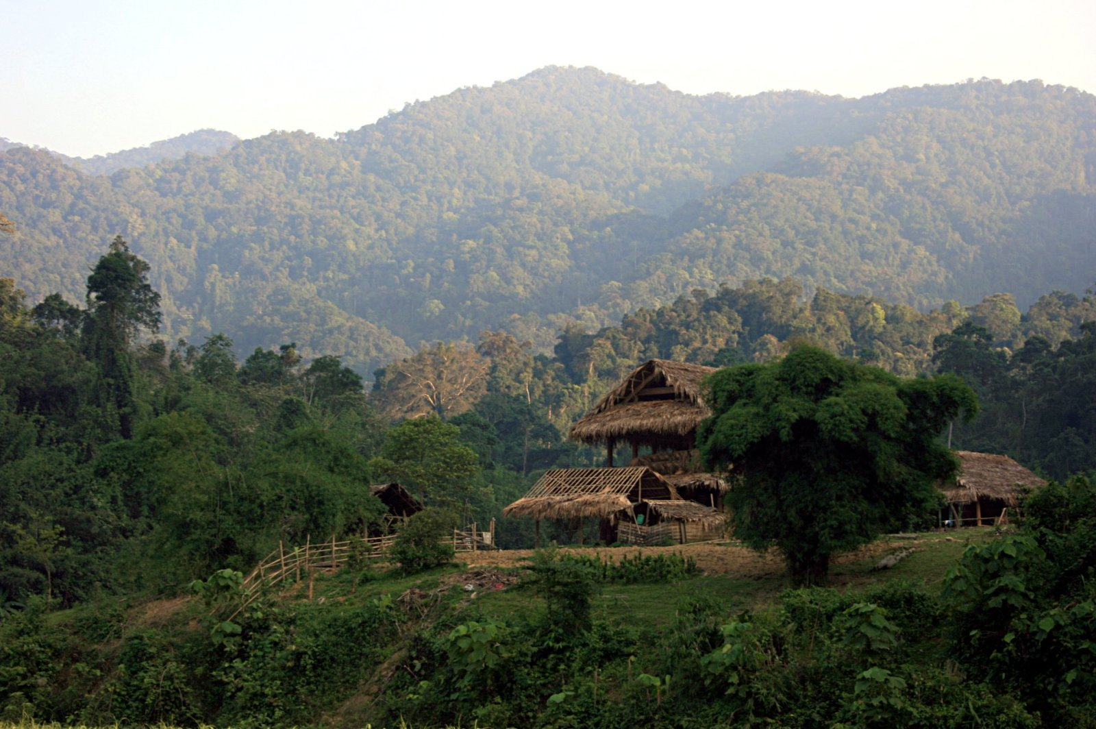 Photograph of landscape in Pu Mat National Park, Annamite Range in Vietnam.